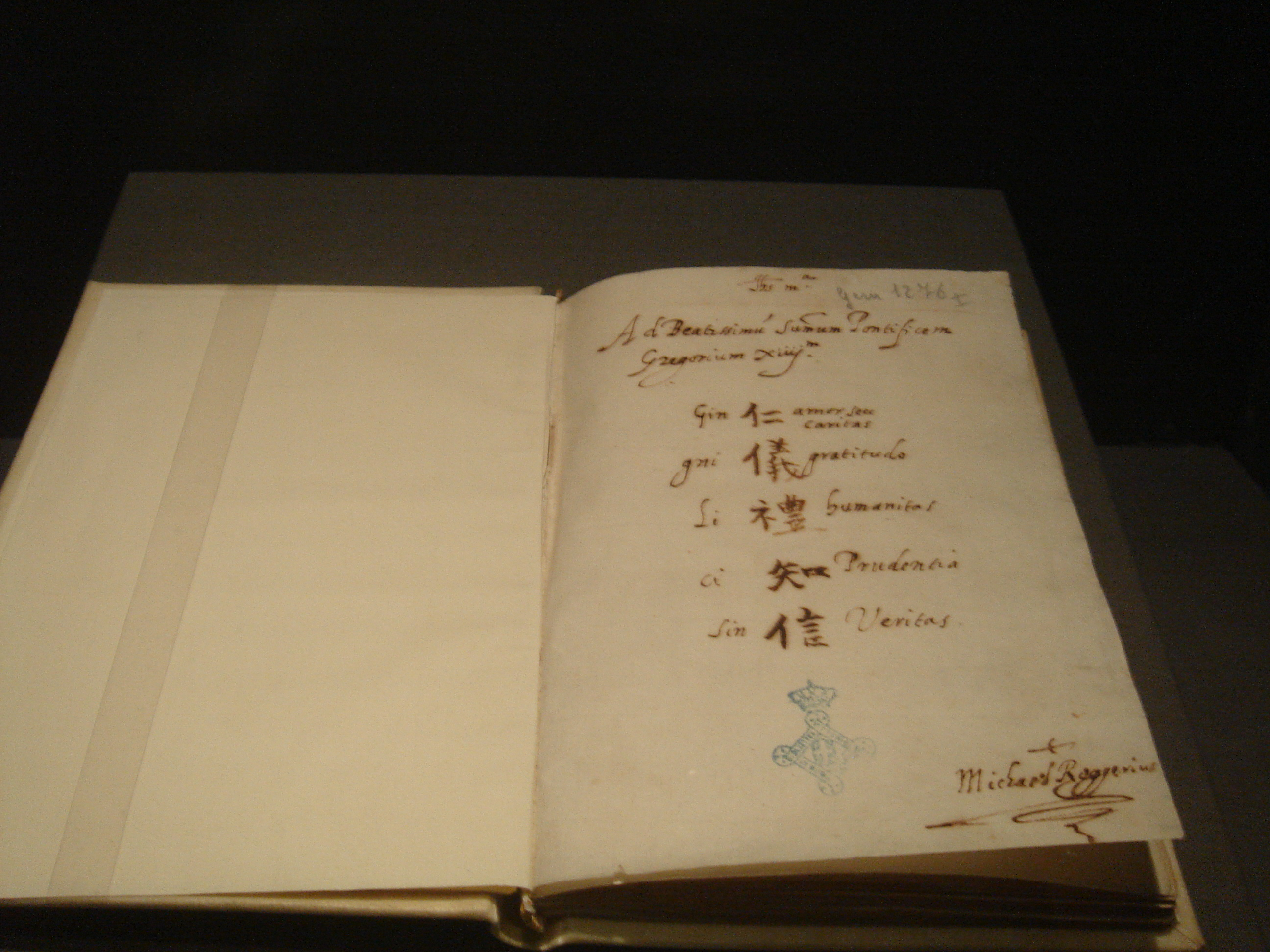 Michele Ruggieri, XVI century, manuscript of 《天主实录》, Rome, National Library, photographed in Beijing Capital Museum